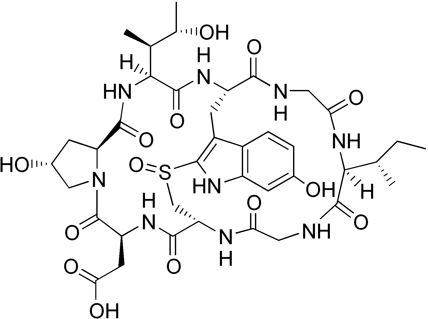 chemical structure of the amatoxin epsilon-amanitin